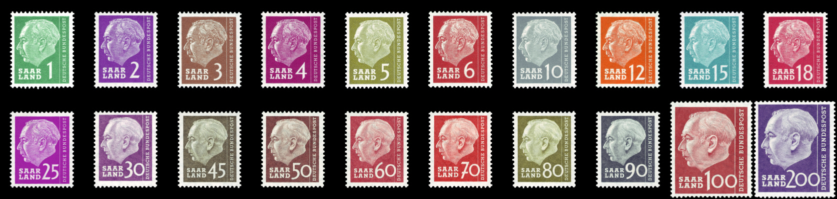 Saarland stamp series (I) of Theodor Heuss, president of Germany